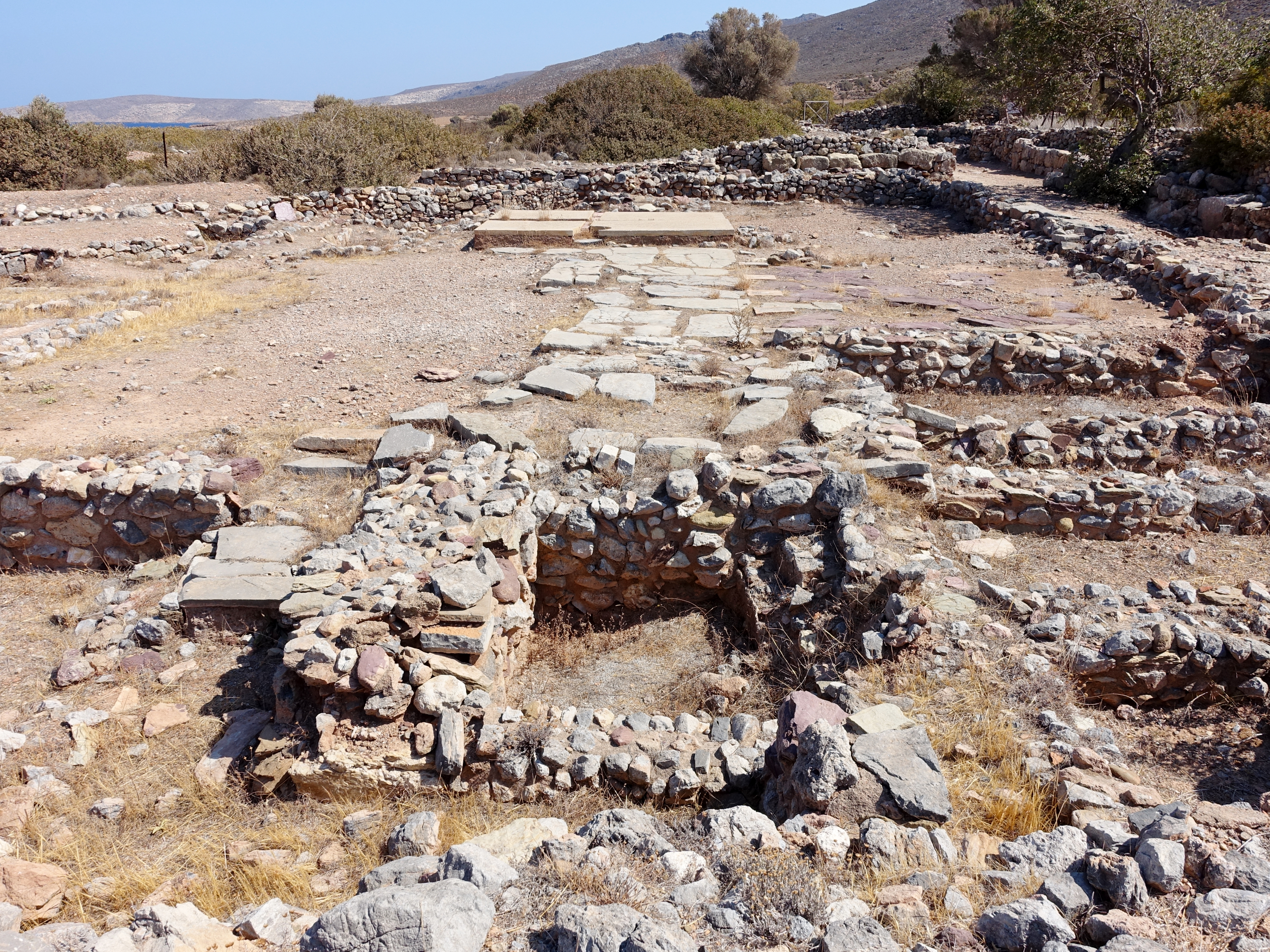 Archaeological site of Roussolakkos (Ρουσσόλακκος) near Palekasto, municipality Sitia, Crete, Greece